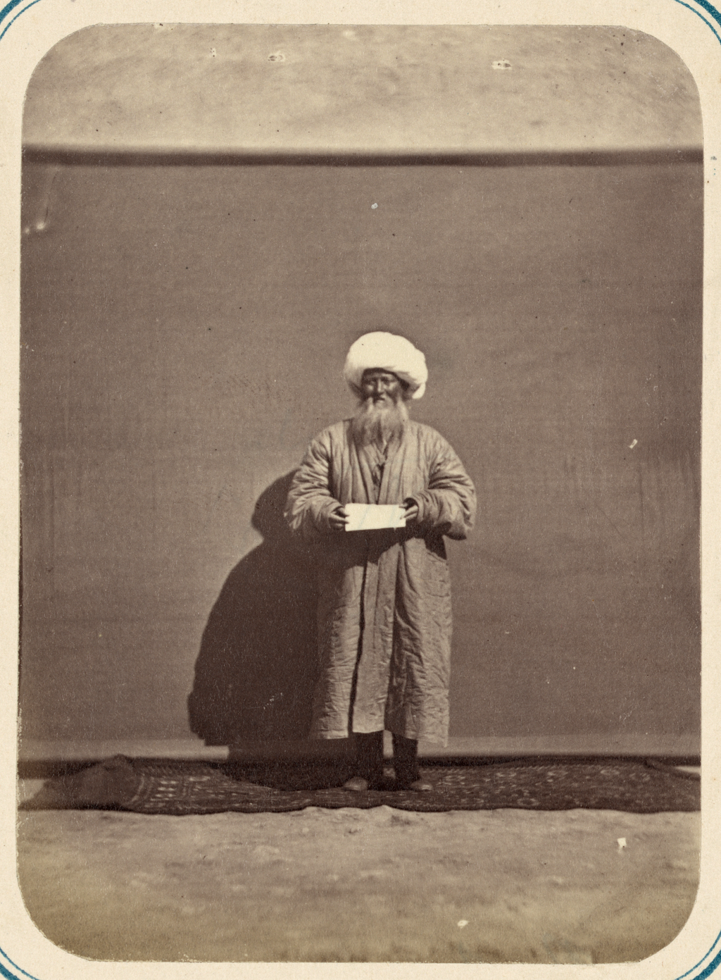 This photograph is from the ethnographical part of Turkestan Album, a comprehensive visual survey of Central Asia undertaken after imperial Russia assumed control of the region in the 1860s. Commissioned by General Konstantin Petrovich von Kaufman (1818–82), the first governor-general of Russian Turkestan, the album is in four parts spanning six volumes: “Archaeological Part” (two volumes); “Ethnographic Part” (two volumes); “Trades Part” (one volume); and “Historical Part” (one volume). The principal compiler was Russian Orientalist Aleksandr L. Kun, who was assisted by Nikolai V. Bogaevskii. The album contains some 1,200 photographs, along with architectural plans, watercolor drawings, and maps. The “Ethnographic Part” includes 491 individual photographs on 163 plates. The photographs show individuals representing the different peoples of the region (Plates 1–33); daily life and rituals (Plates 34–91); and views of villages and cities, street vendors, and commercial activities (Plates 92–163). Courts; Ethnographic photographs; Photographic surveys; Portrait photographs; Portraits; Turkic peoples